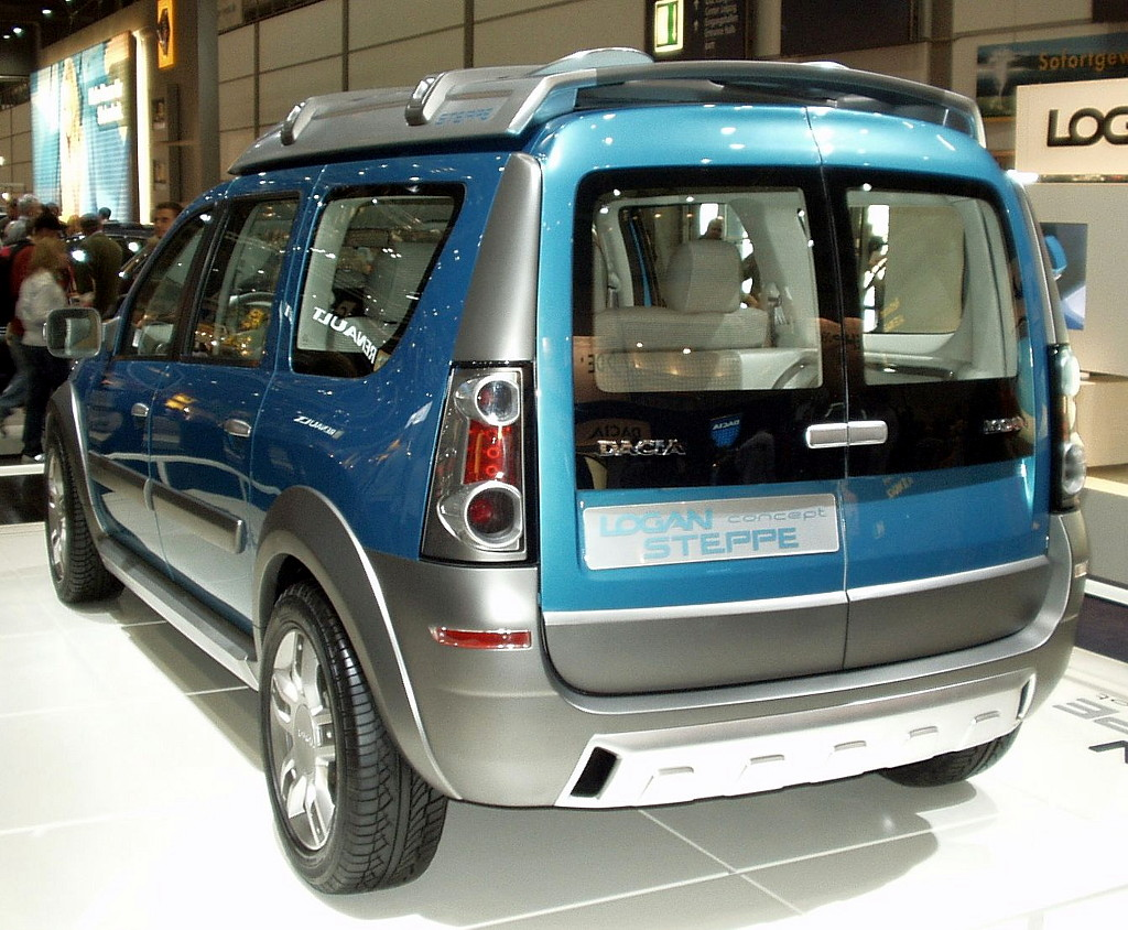 Dacia Logan Steppe